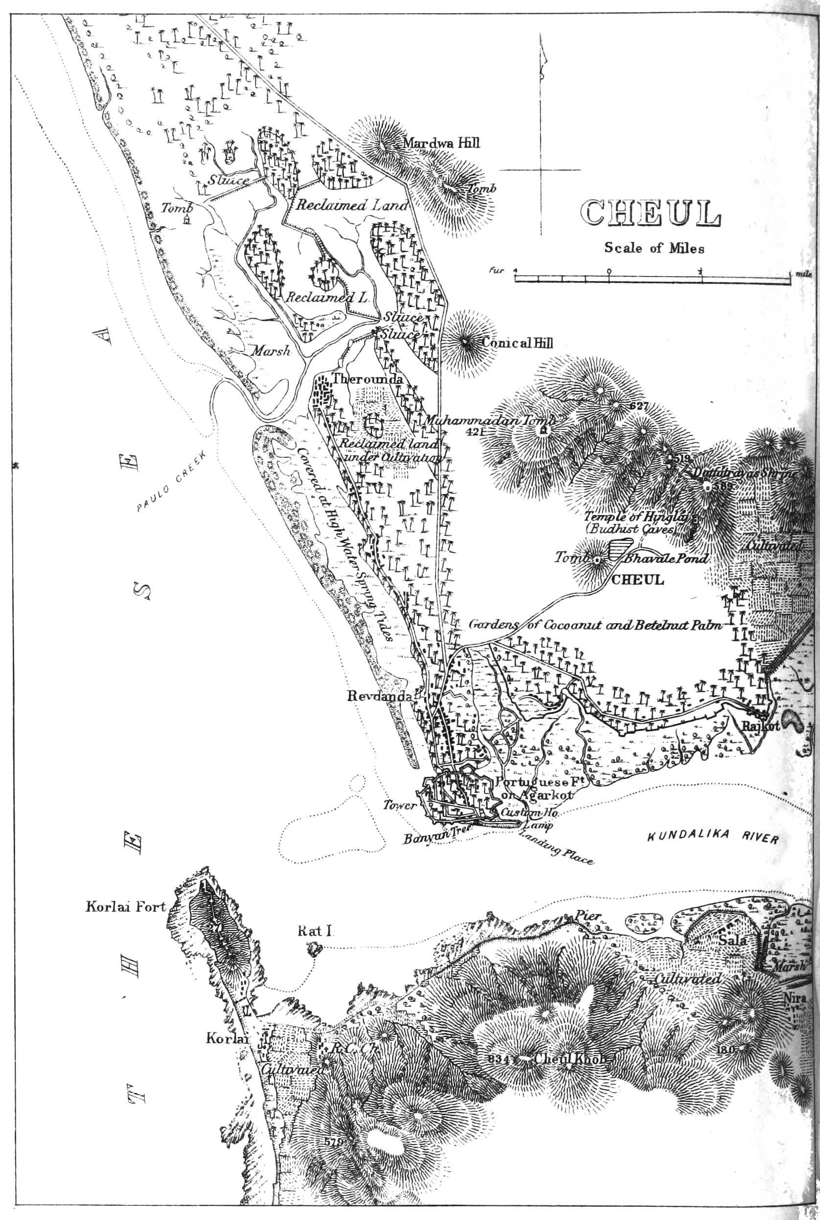 Map of Cheul